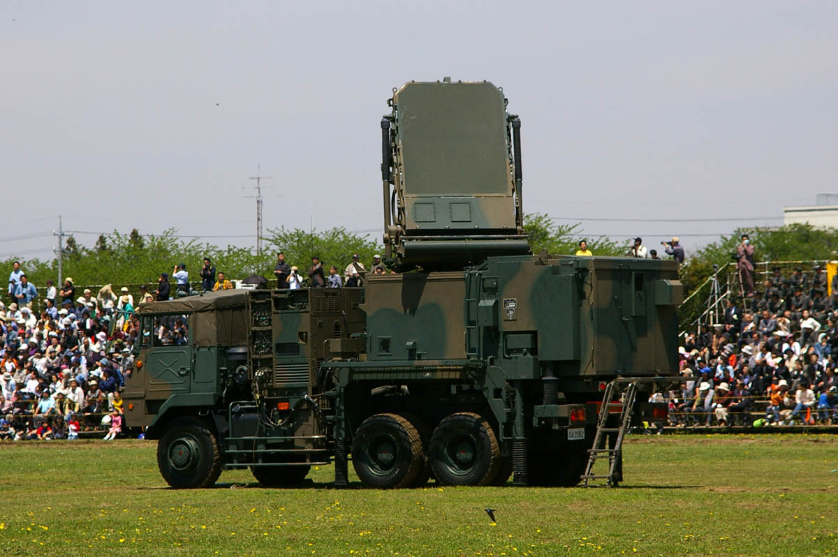 Taken by Los688,29-Apr-2007,JGSDF Camp-Shimoshizu.JGSDF Type81 SAM,Air Defence Artillery School unit.PD-self. ja:2007年4月29日、投稿者撮影。陸上自衛隊下志津駐屯地記念行事。81式短距離地対空誘導弾改（射撃統制装置）、高射教導隊。